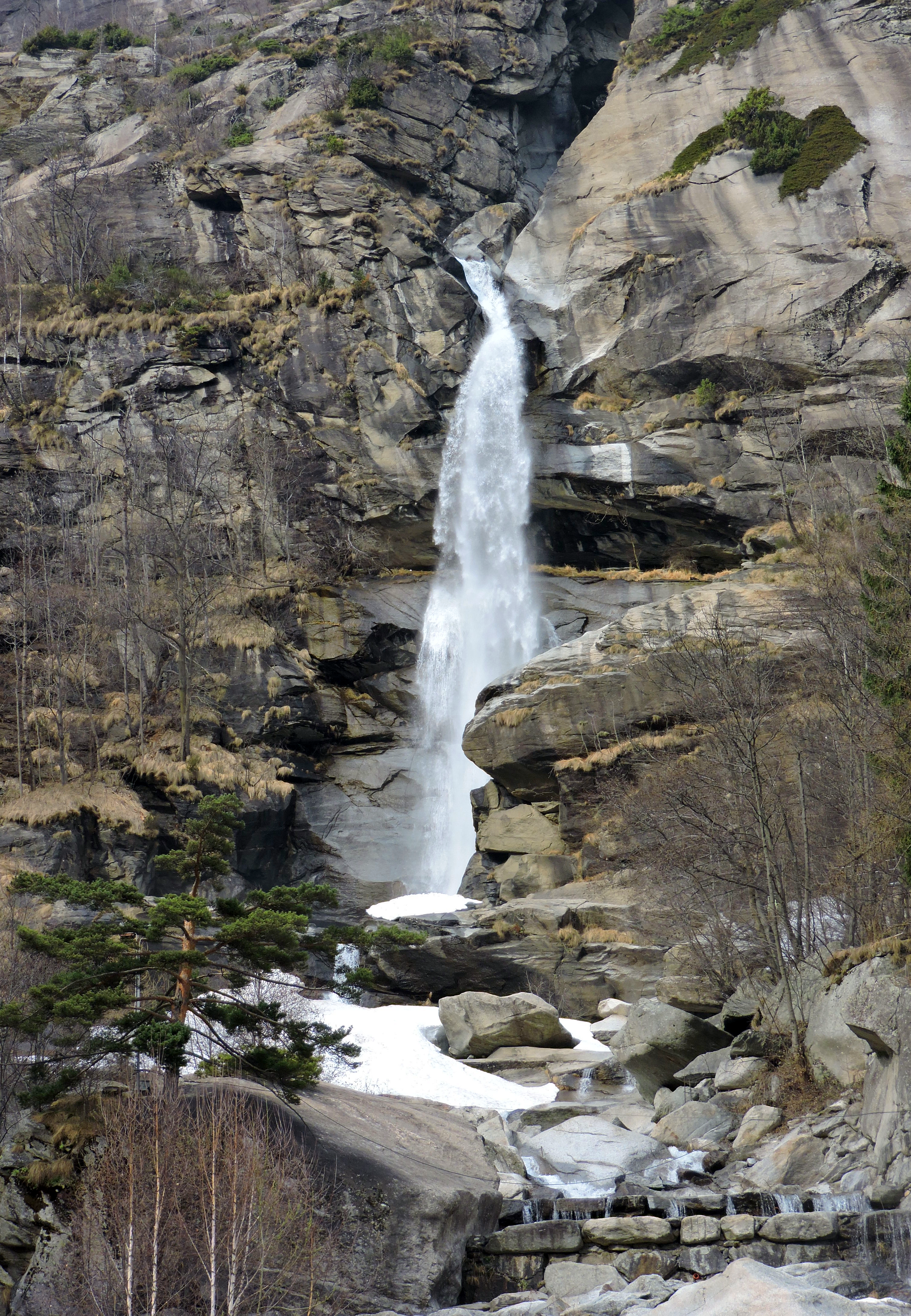 Noasca (TO, Italy):Noaschetta waterfall